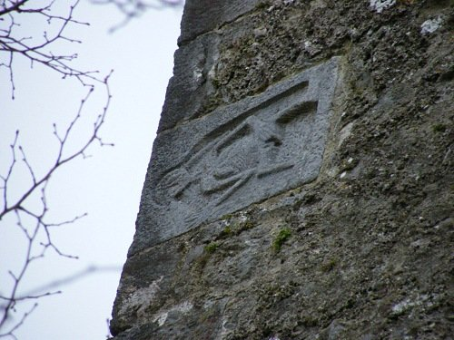 Clonmantagh Sheela-na-gig Sheela-na-gig on Clonmantagh (also Croomantagh) castle, County Kilkenny. The earless figure has small breasts hanging to the sides, prominent ribs, the left hand reaching in front of the leg to spread the vulva, and the right hand waving. No toes are depicted on the feet. What may be braided hair or a pony tail extends from the back of the head to the left arm. This sheela is hard to see once the leaves are out on the tree.